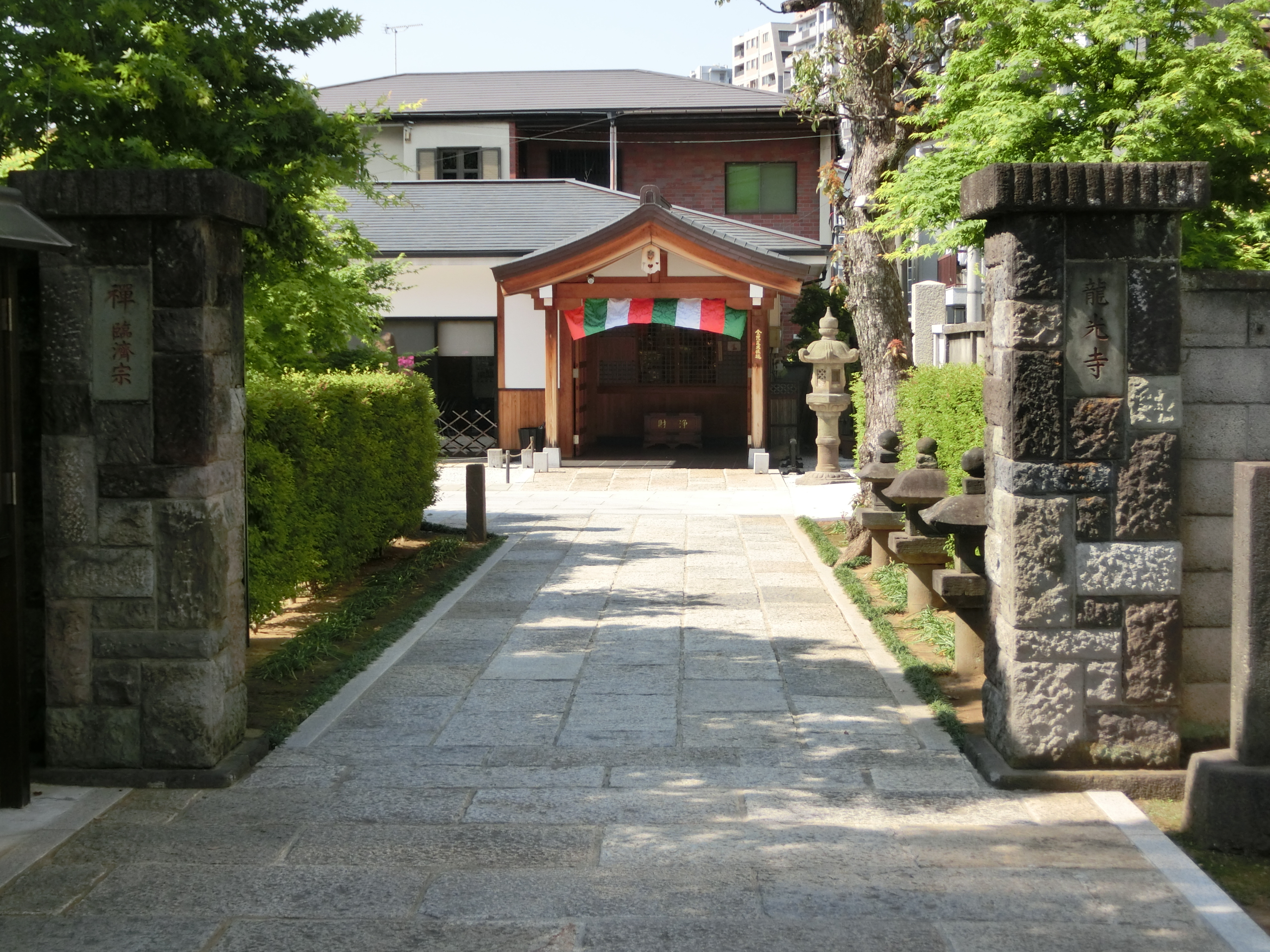 Ryoko-ji (Bunkyo)